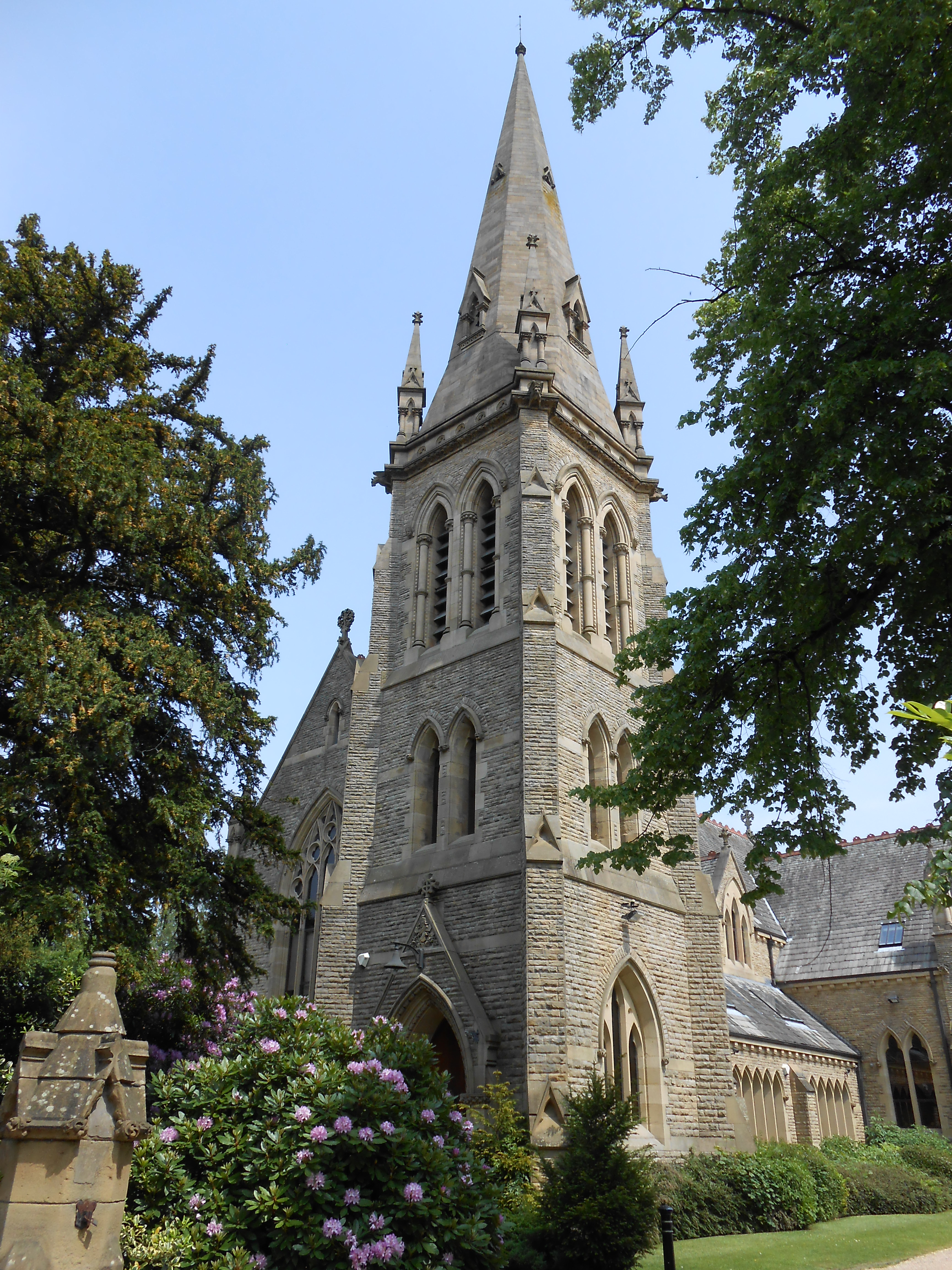 Photo taken at Didsbury Methodist Church, Manchester, England.